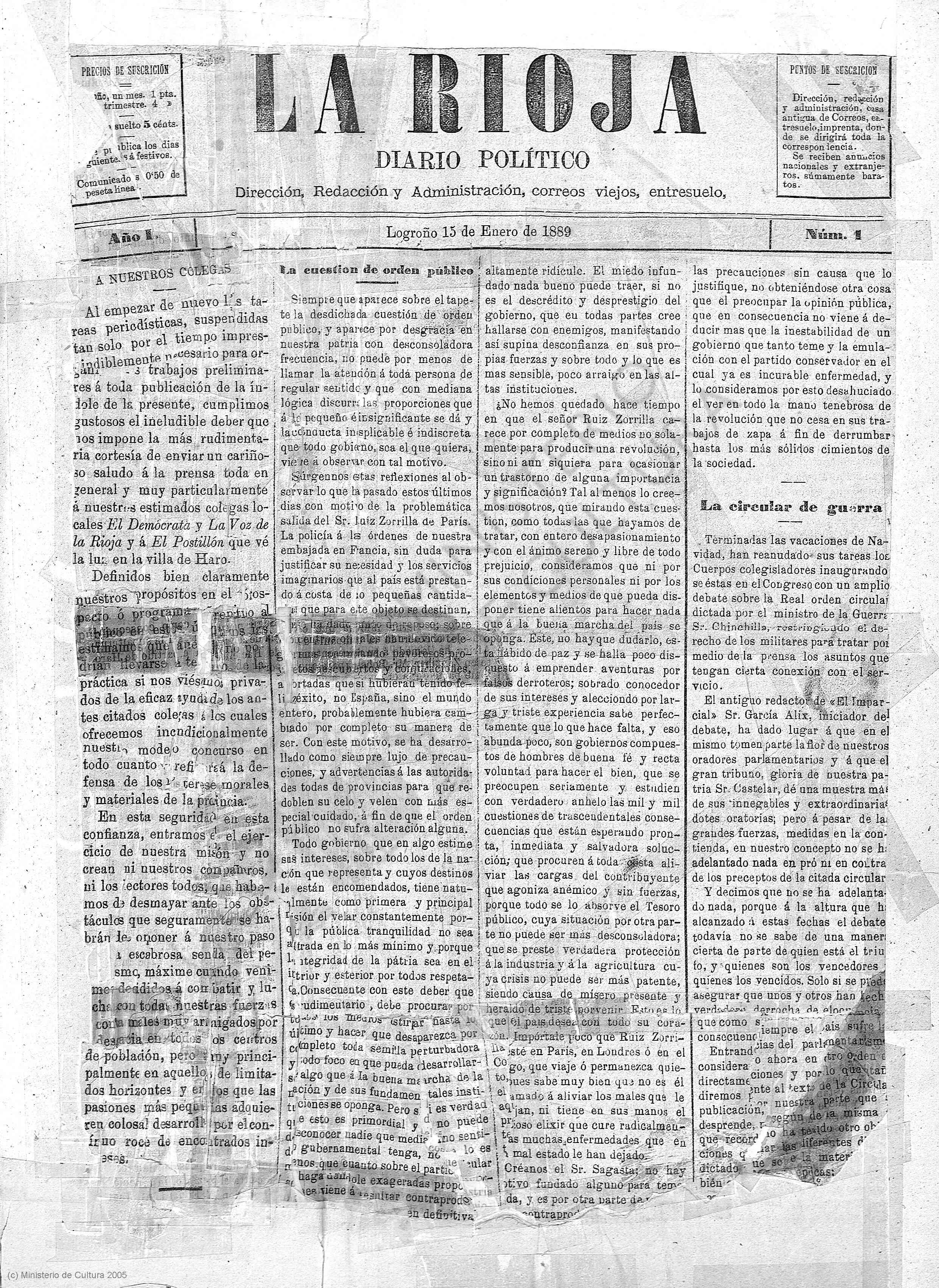 The first newspaper of "La Rioja". Edited on January 15th of 1889. It cost was of 5cents. of peseta.